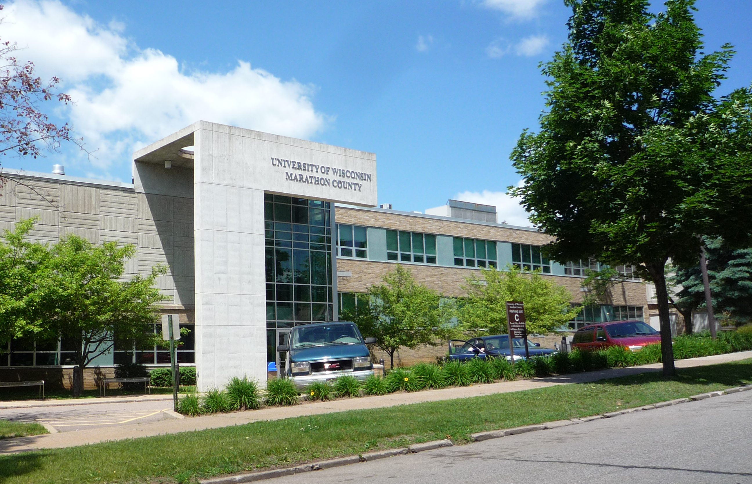 University of Wisconsin-Marathon County, Wausau, Wisconsin, USA.